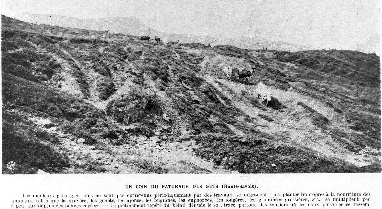 picture of Les Gets (France), in an old book about importance of trees, made for children in schools, here from the second edition (in 1921), by the french association 'Touring-Club de France". the book is named "Manuel de l'arbre"